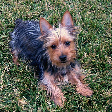 6 month old silky terrier in the grass, Author: Scott Fletcher, Photo taken by Don Fletcher